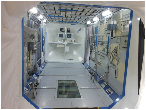 Internal view of ESA's Columbus module that is used for astronaut training, located at the European Astronaut Centre in Cologne, Germany